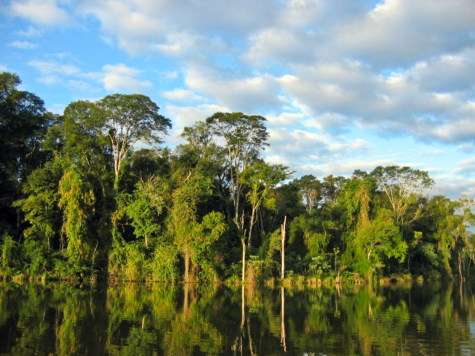 Altantic Forest in Paraguay.